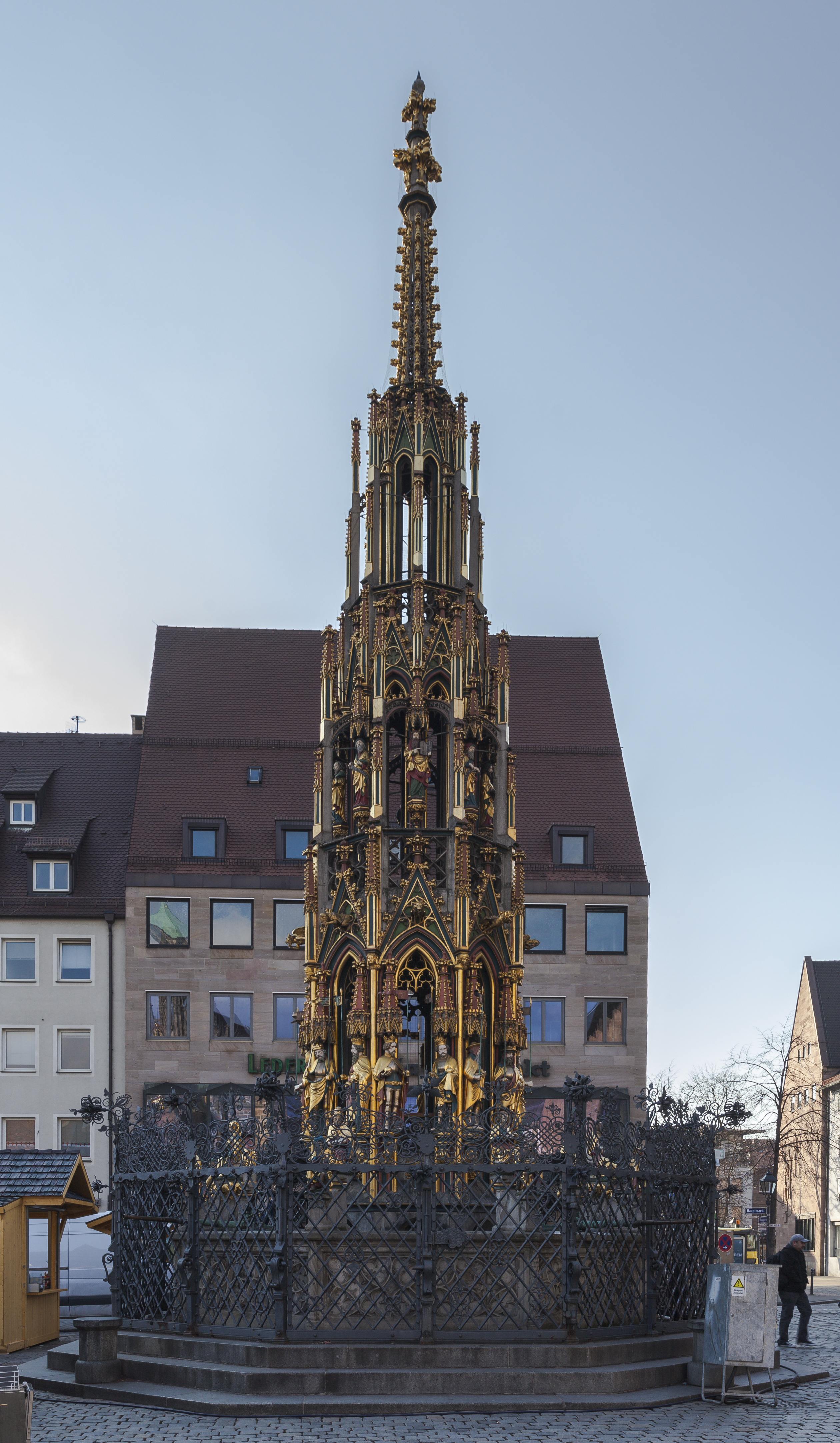 Schöner Brunnen, Nuremberg, Germany